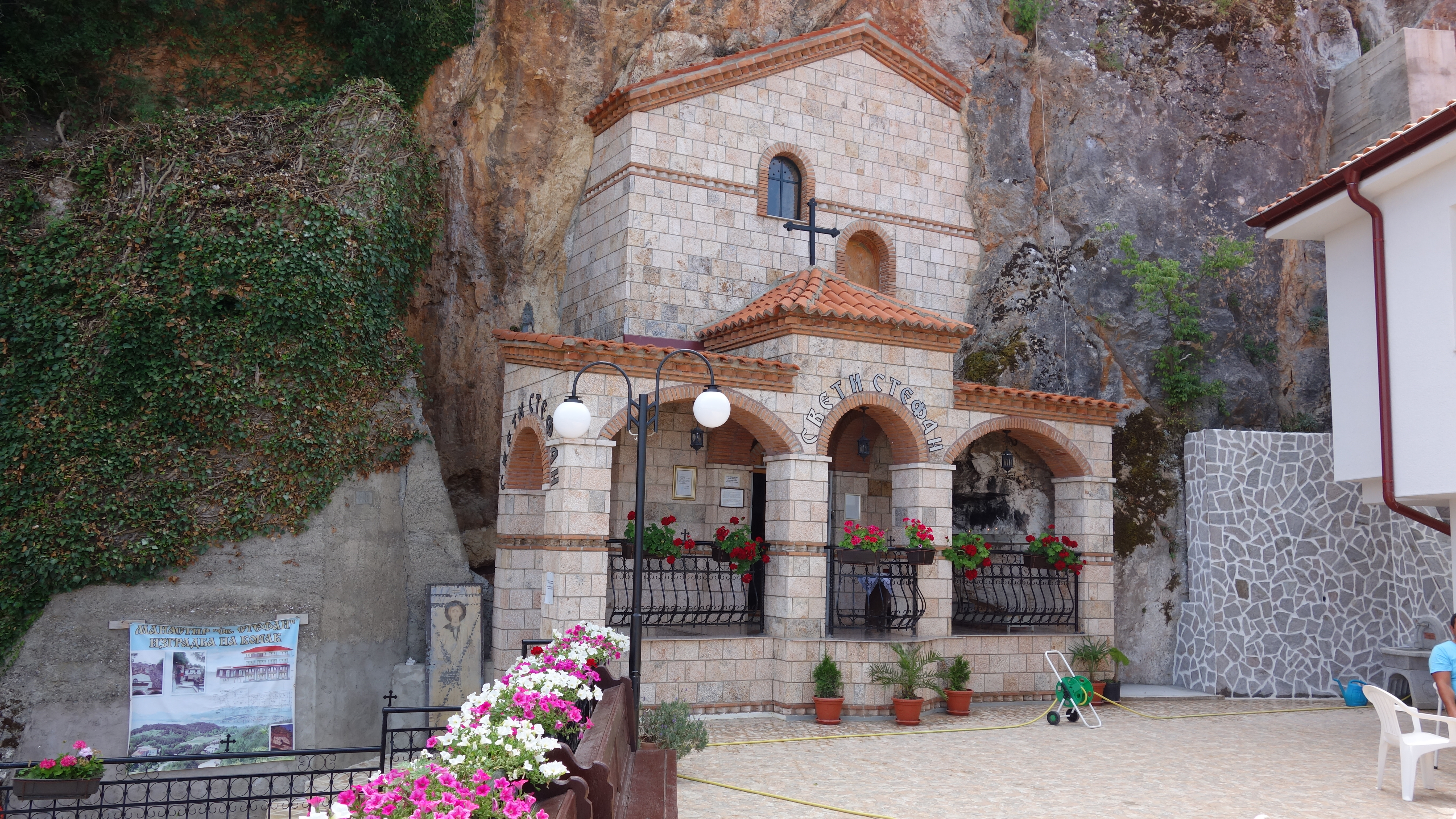 Saint Stephen Monastery, Macedonia